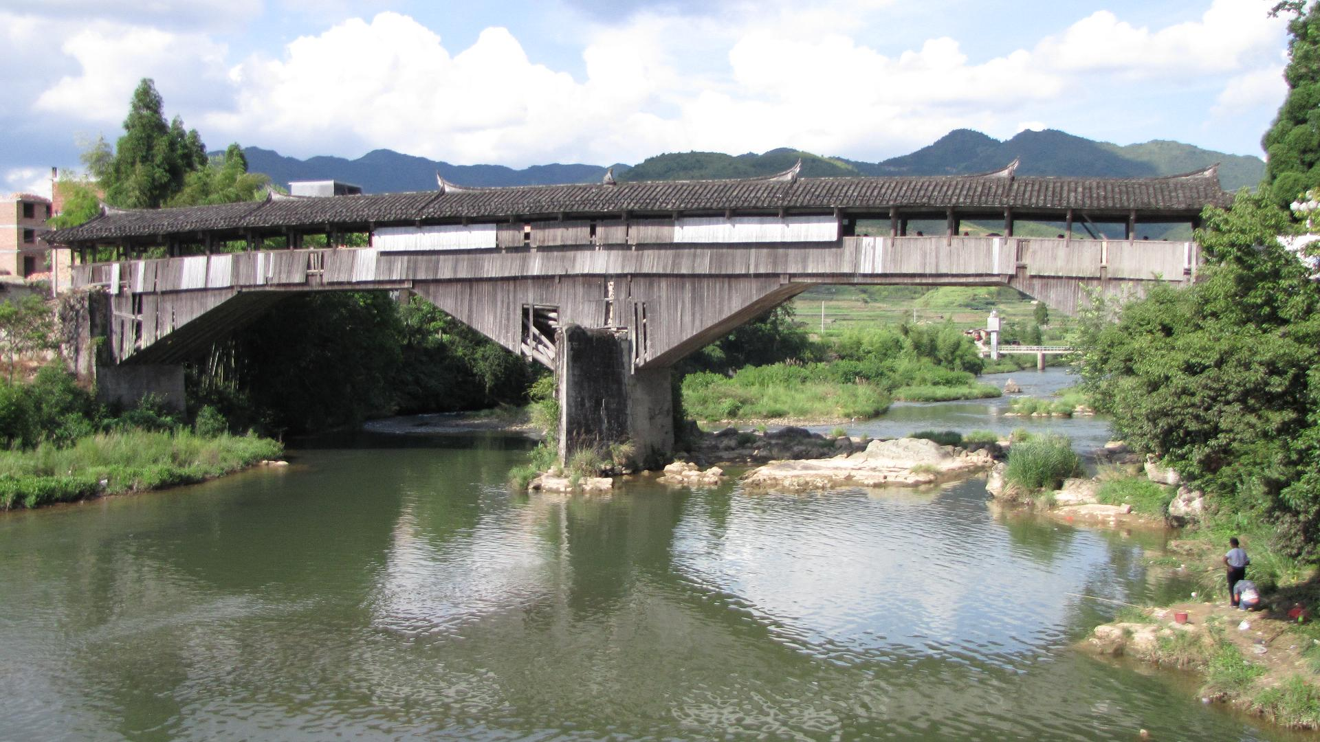 Qiansheng Covered Bridge in Pingnan, Fujian, China